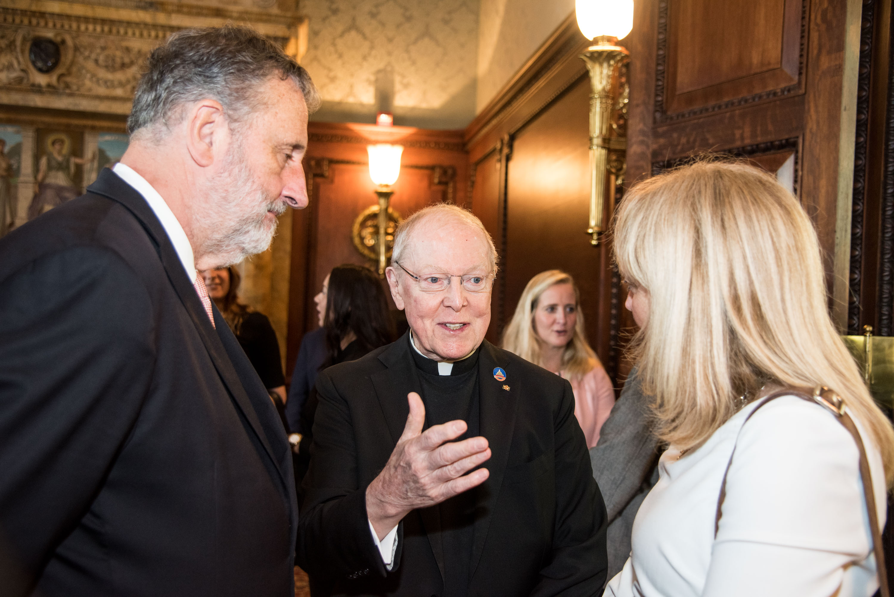 Anne Frank Awards, 09-14-2017, Library of Congress, Washington DC, photos: Stephen Voss